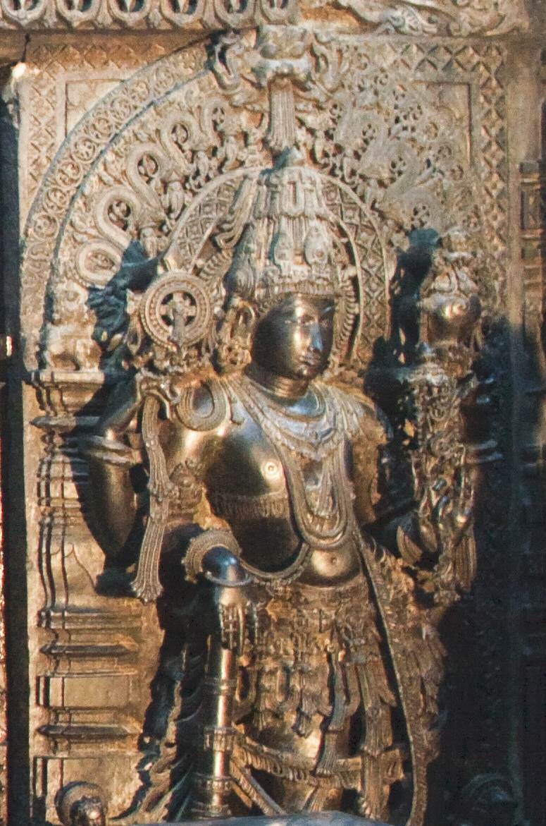 The sculpture of Vijaya (guardian of Vishnu's abode - Vaikunta), here guarding the sanctum of the Vishnu temple - Chennakesava Temple